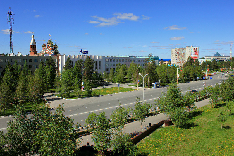 Lenin Street in Noyabrsk as of July 2013.